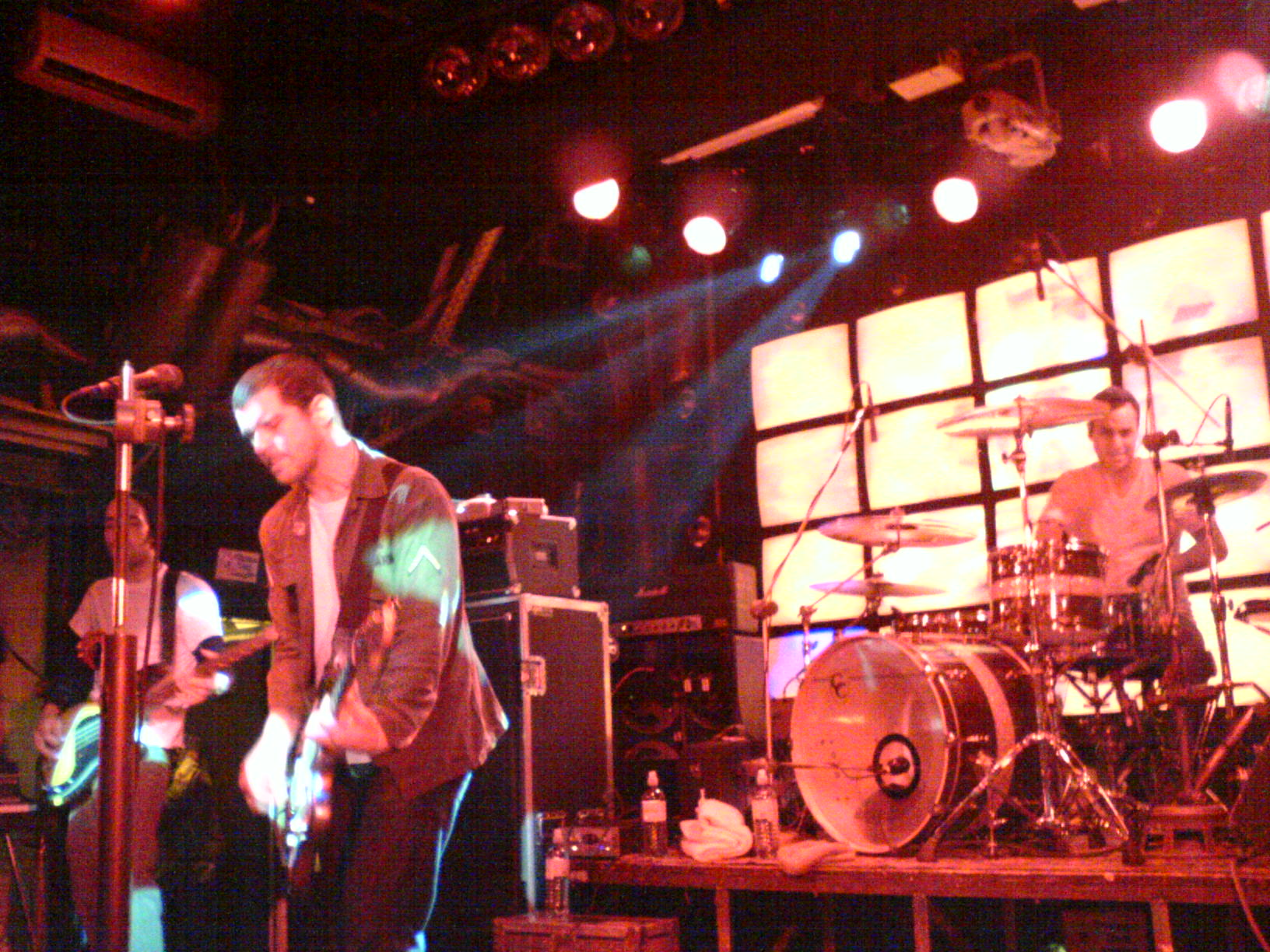 Brand New performing live at The Flex in Vienna on January 29, 2007.